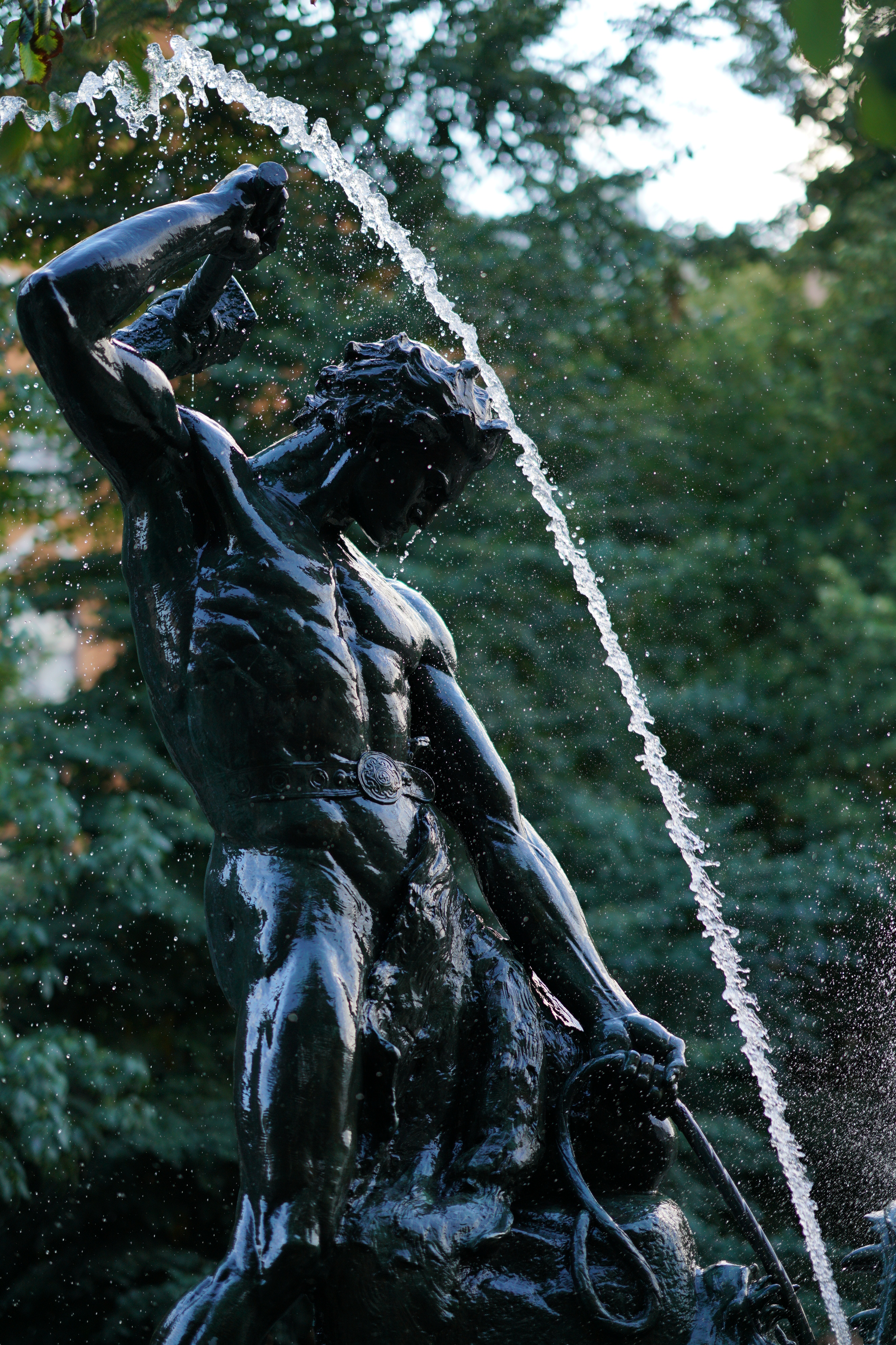 Tors fiske, Mariatorget, main statue